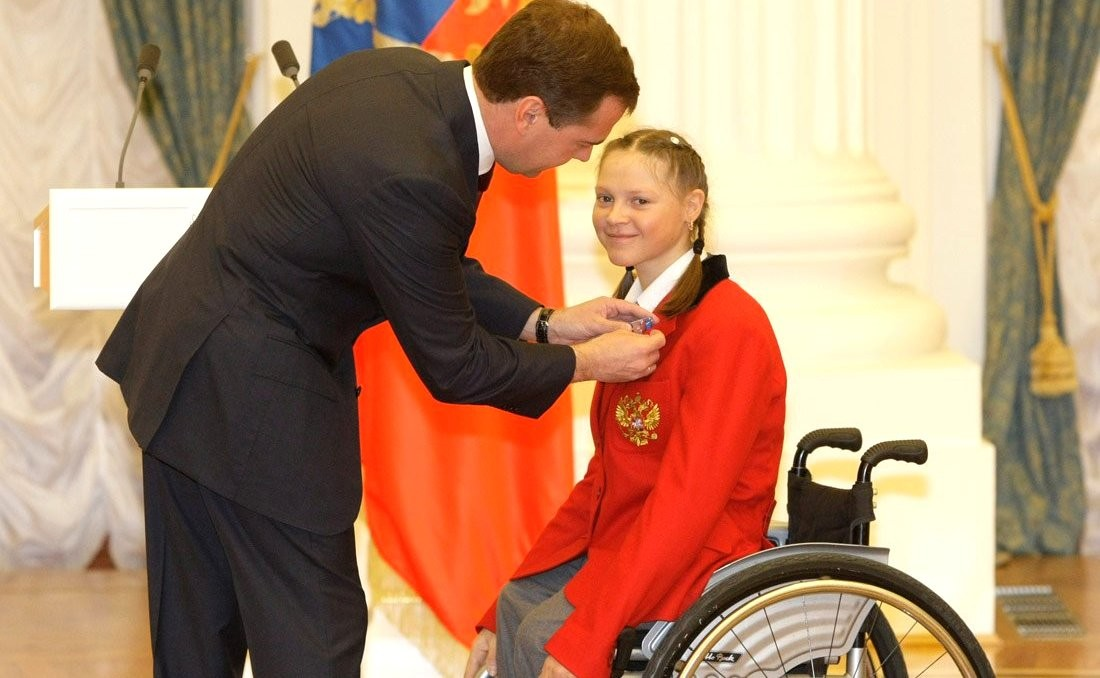 Russian President Dmitry Medvedev and Russian biathlete Maria Iovleva at award ceremony